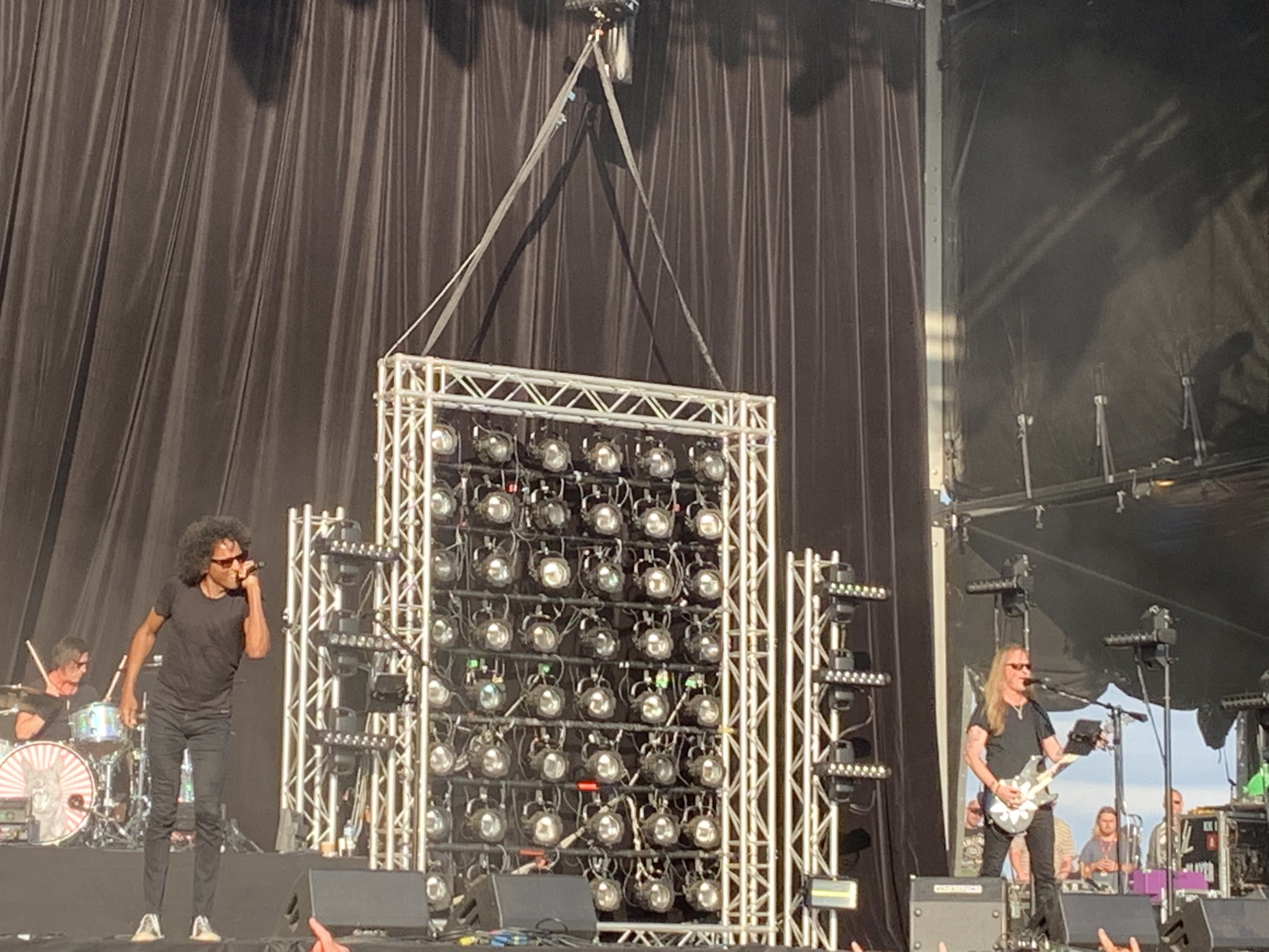 Alice in Chains performing in Download Festival in Melbourne, Australia (2019)